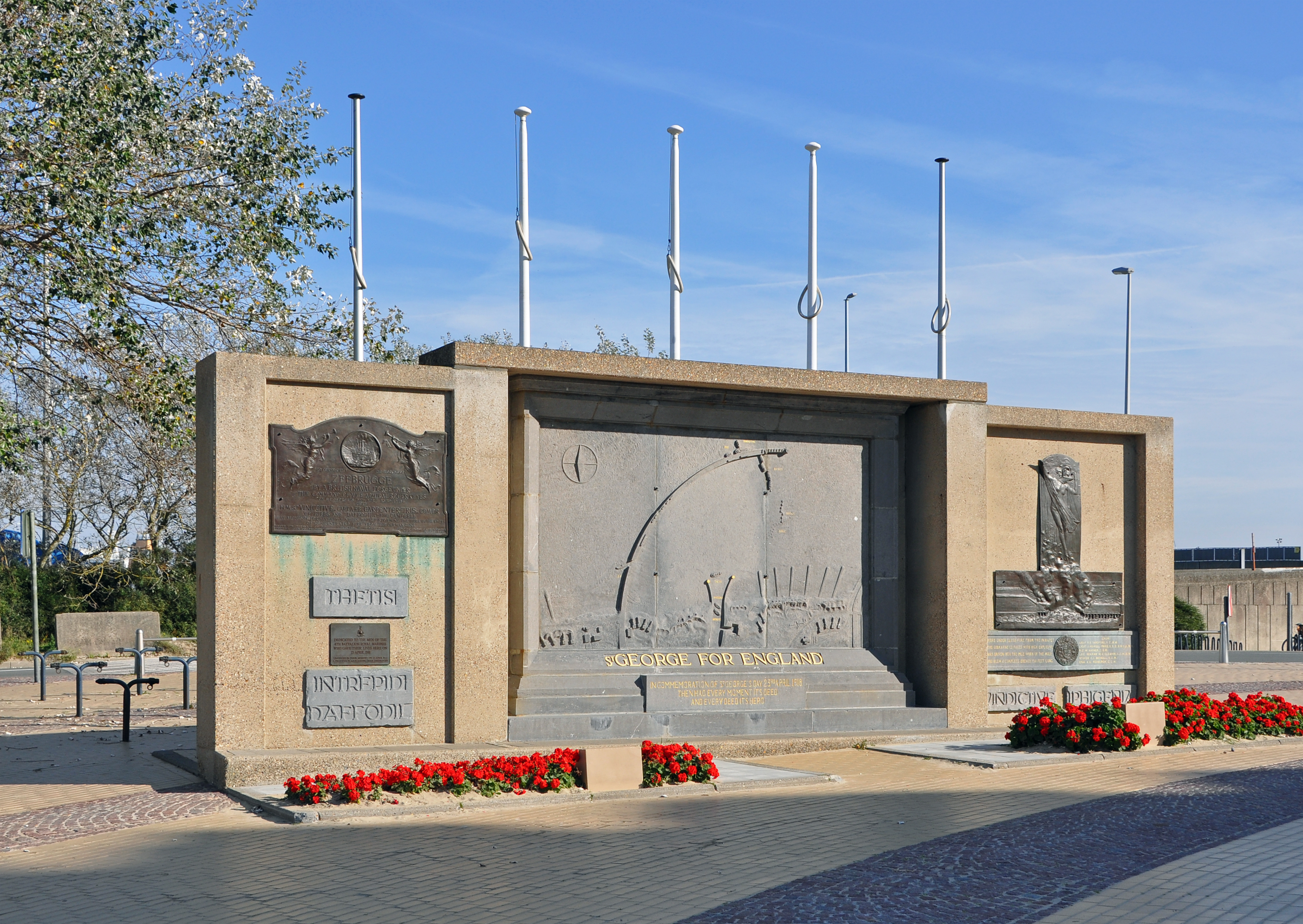 Zeebrugge (Bruges, Belgium): Saint George's Day Memorial (Zeebrugge Raid, 23 April 1918)